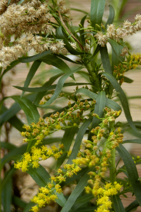 Arnica